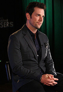 Singer Chris Mann rose to fame after being a member of Team Christina Aguilera on NBC's television show, "The Voice." After his breakout 2012, Chris Mann talks about his hit debut album, 'Roads,' singing with Christina Aguilera, his exclusive Christmas album for Walmart, musical influences and much more!